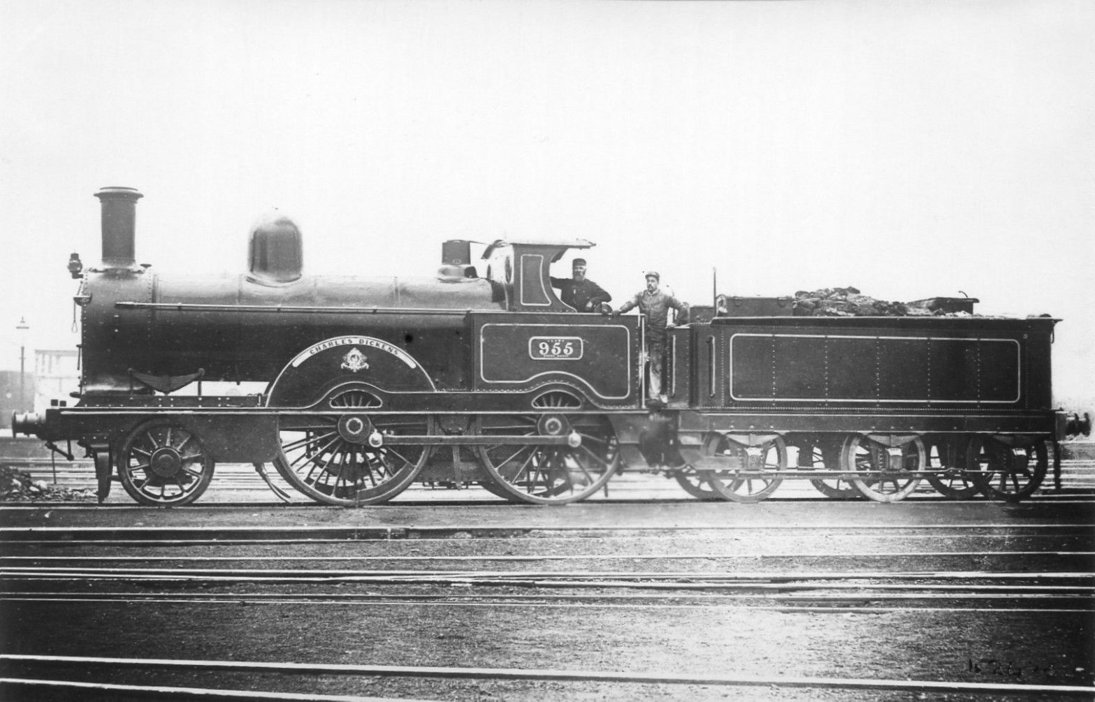 Photogrpah of LNWR engine No. 955 'Charles Dickens'